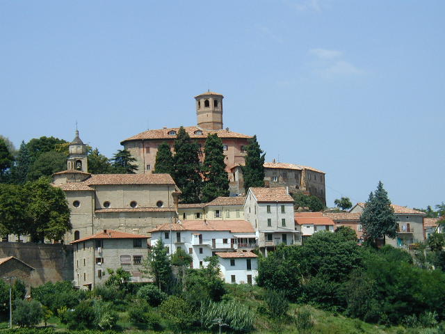 Calamandrana Alta, Piedmont, Italy